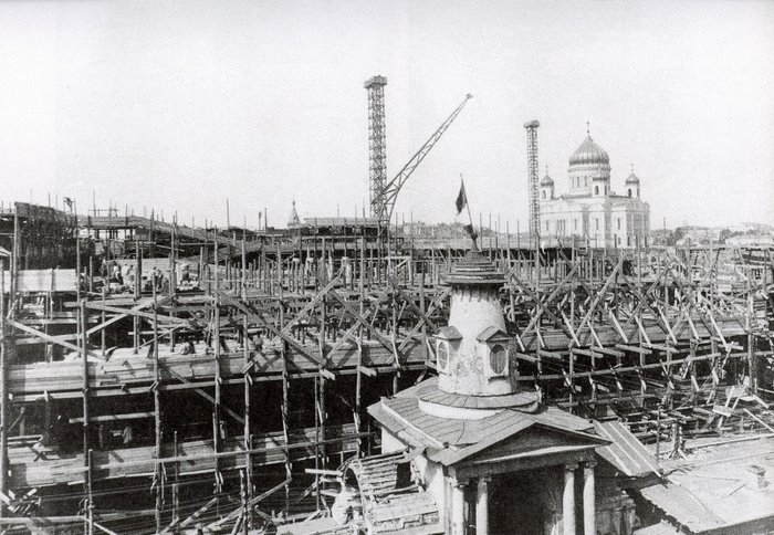 Construction of the House on Embankment with the pre-1931 Cathedral of Christ the Saviour still standing in the background